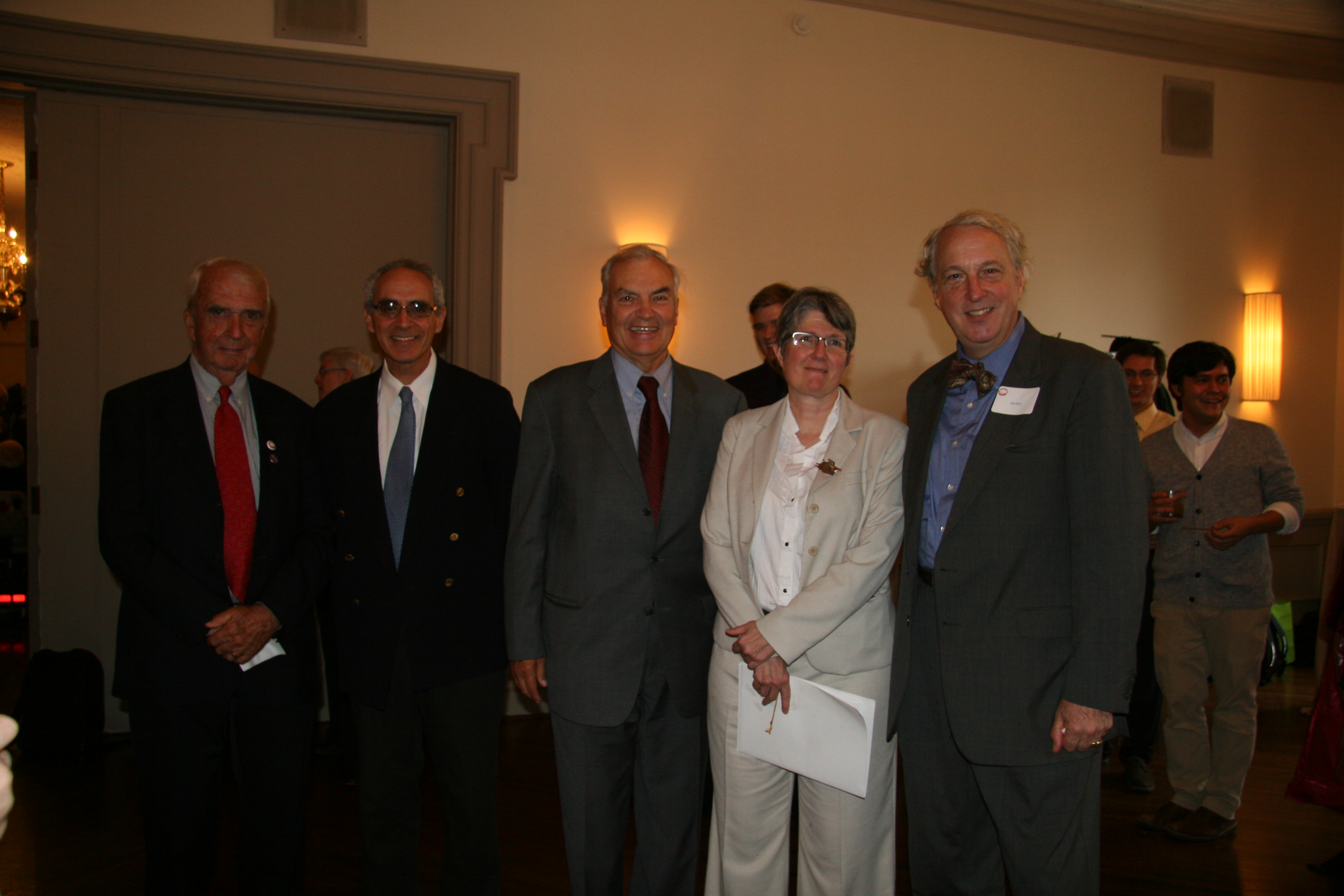 Presidents of Shimer College pose for photo on the occasion of the formal inauguration of the school's 14th president, Susan Henking, on September 20, 2013. From left to right: Ed Noonan (architect), David Shiner (who as Dean of the College also served as acting president in 2007), Don Moon (educator), Susan Henking, William Craig Rice.